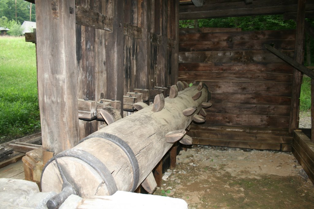 ore mill in Gura Cornii in the Apuseni Mountains (reconstructed for the ASTRA open-air museum, Sibiu)